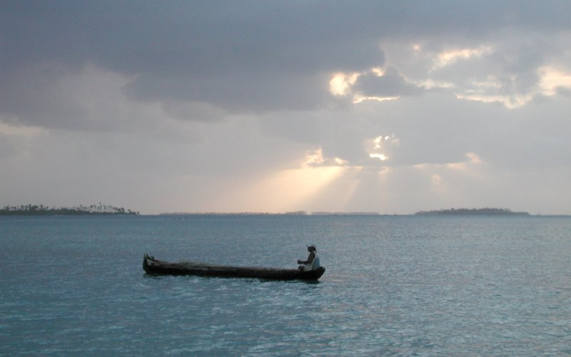 A dugout canoe being paddled by a Kuna local in the San Blas Islands, Panama. Picture by S/V Moonrise of Inverness.